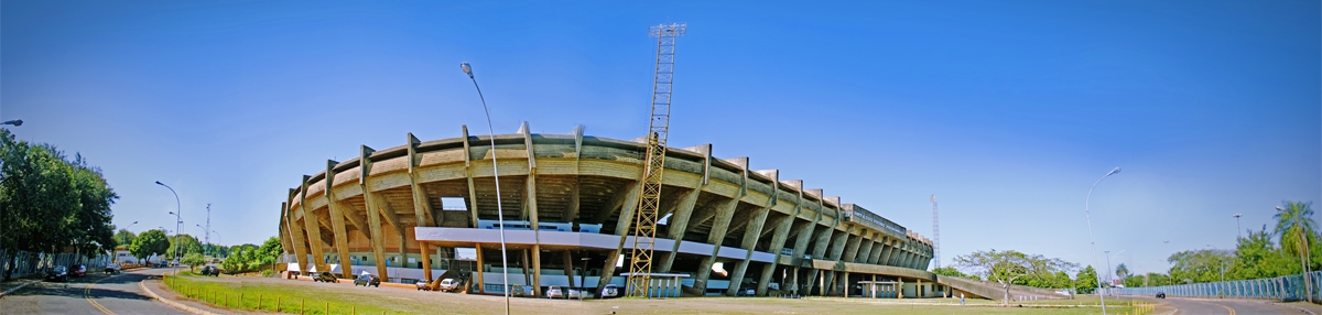 Panorama do Estádio Morenão, em Campo Grande